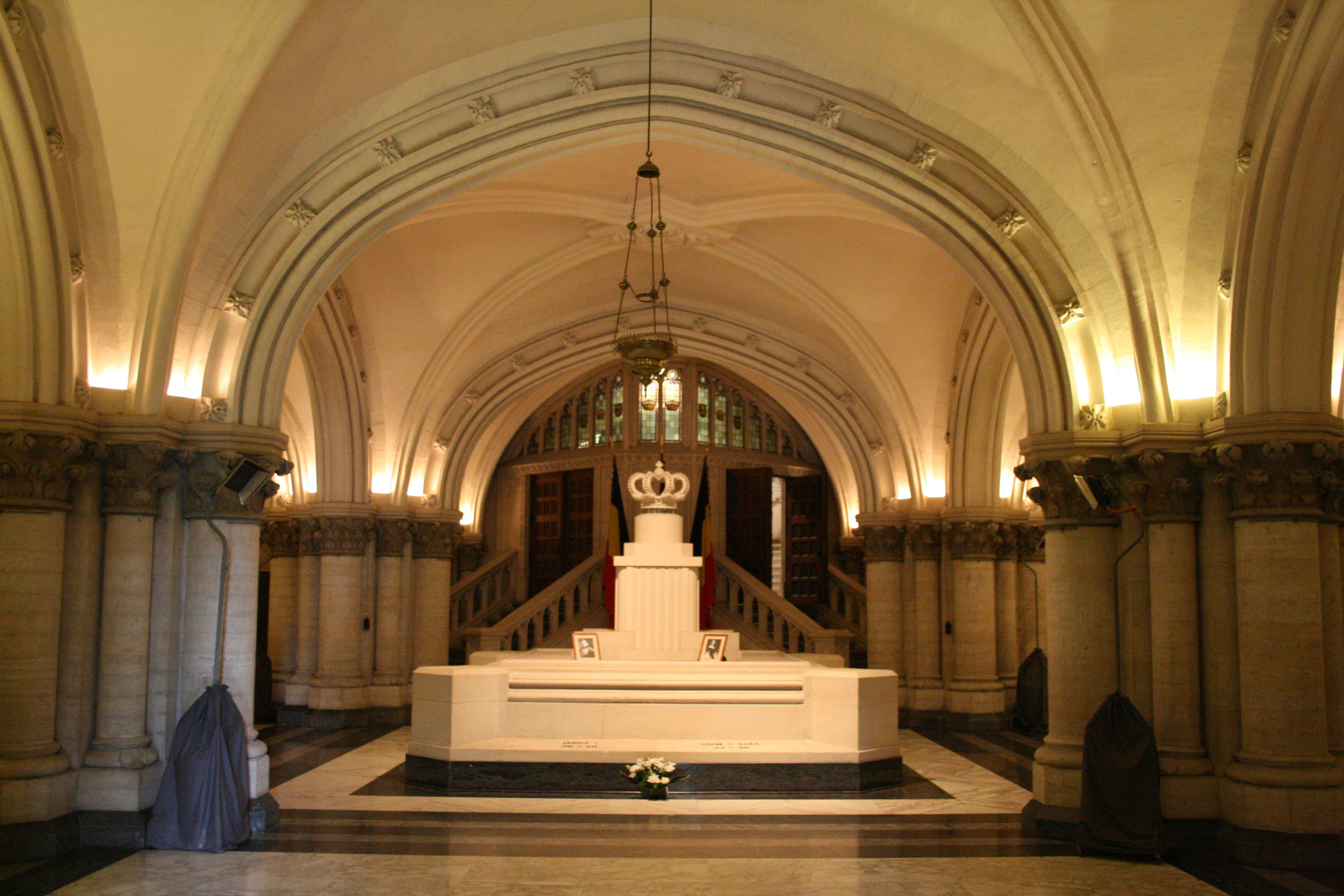 Royal Crypt in the church notre-Dame at Laeken (Brussels), Belgium. Burial place of the Belgian sovereigns, their wives and some members of the Belgian royal family.